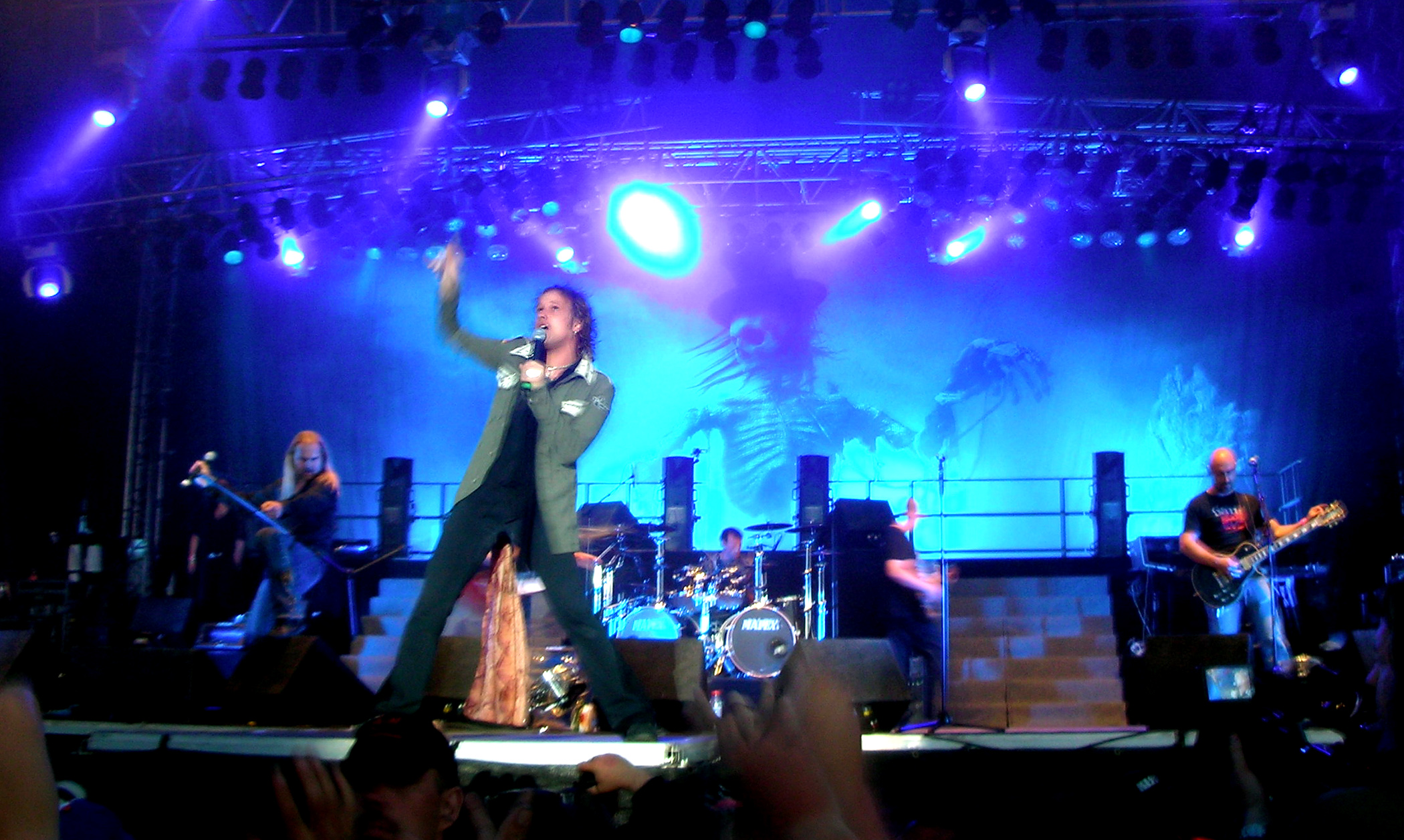 Symphonic metal project Avantasia with frontman Tobias Sammet, at the Sweden Rock Festival in 2008.